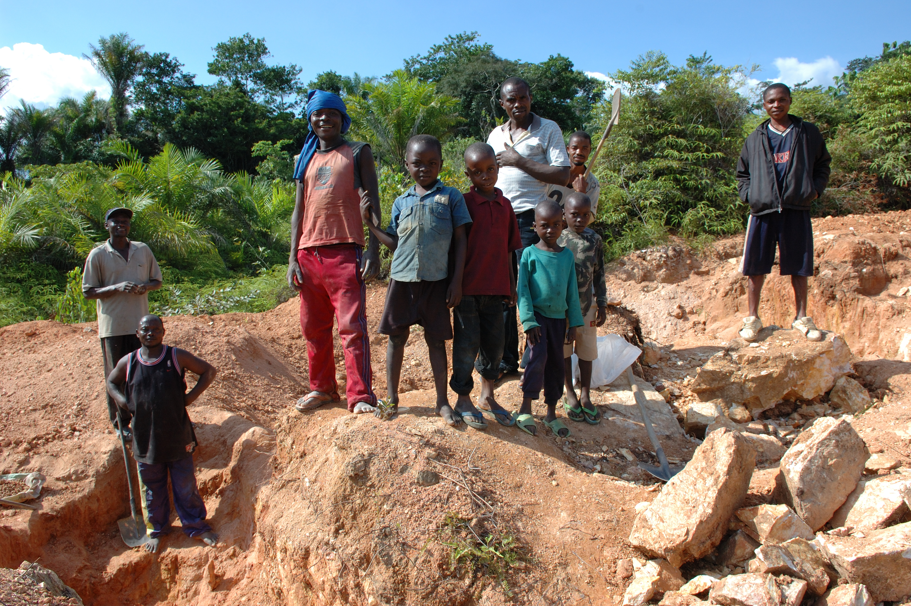 The mine was a challenge to my preconceptions. In Kailo they mine wolframite and casserite. Before the war the mines were operated by a state run company, the defunct infrastructure can be glimpsed under bushes and vines. The company still has a smart office in the centre of the village, but instead of mining they take a percentage of the proceeds of the artisan miners and the traders. Most of the workers are from the area, although I met some from the province of Kasai. Children were working with their parents, helping with panning for the ore, carrying and selling goods to the workers. The mine is made up of widely dispersed open pits. Most pits were 4 to 10 metres deep with the occasional 25 metre pit. Next to the pits were the temporary huts of the workers. There did not appear to be the squalor or disease that we find in gold mines. Although there were ‘maison de tolerance’ as they are politely called here with the associated risks of sexual diseases, AIDS and child prostitution. Child labor in sub-Saharan Africa.